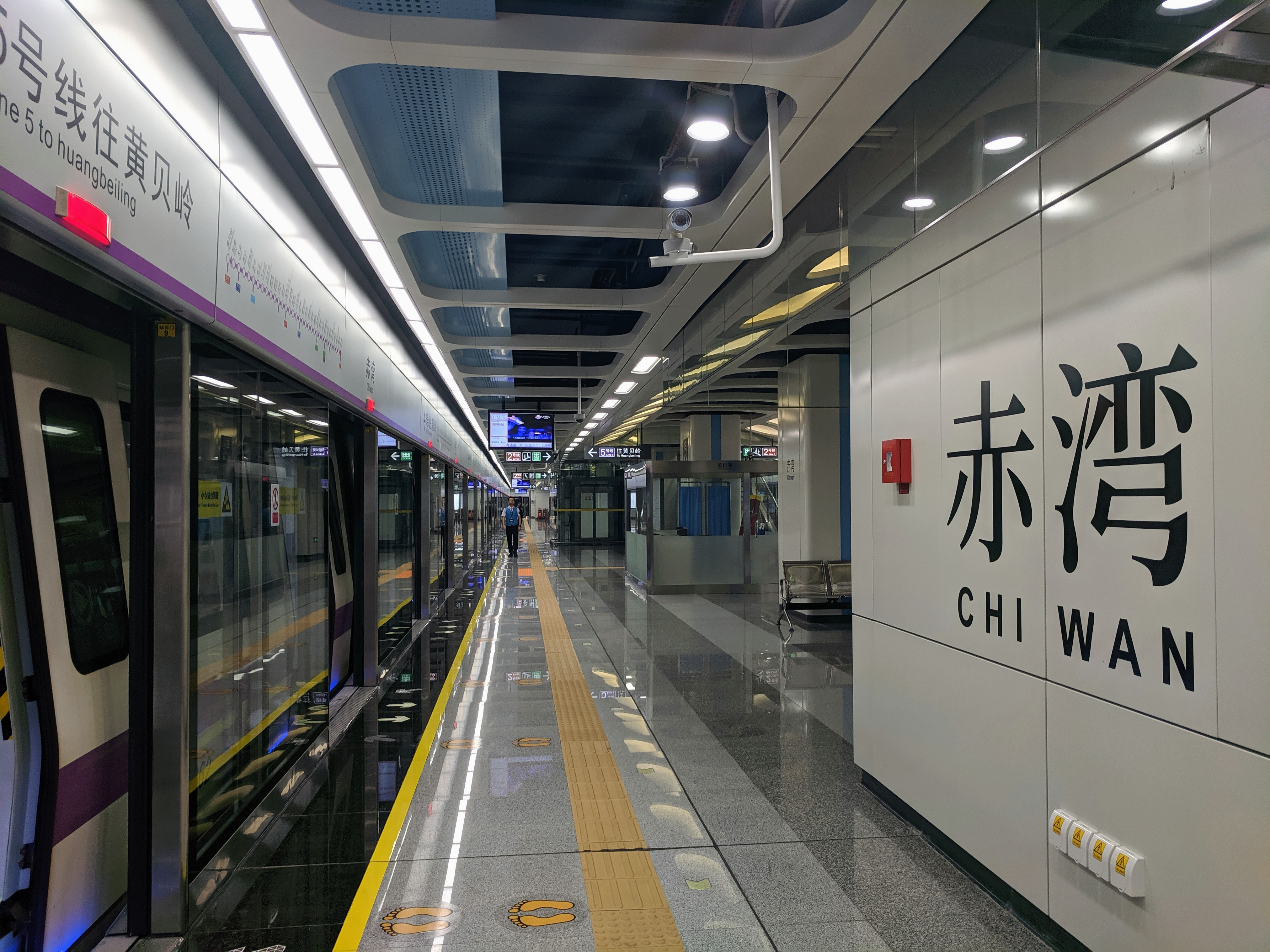 SZMC Line5 Chiwan Station L5 to Huangbeiling